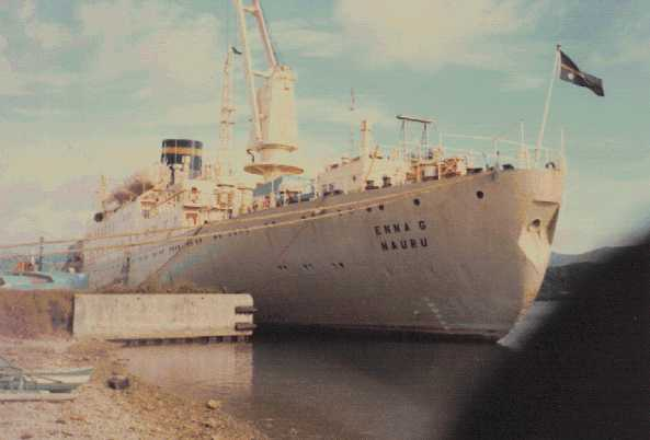 The Enna G, a boat of the Nauru Pacific Line on the port of Ponape(Micronesia) Prinses Margriet, built in 1961. Sold to Nauru in 1970 and renamed Enna G.